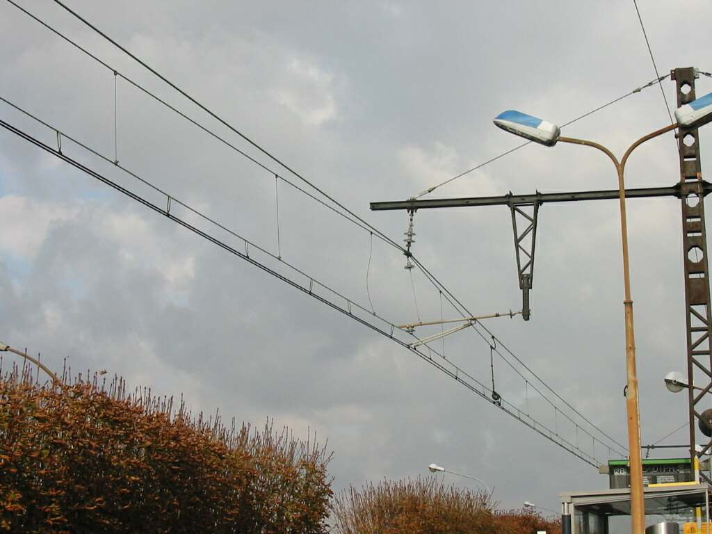 Caténaire 1,5 kV (Villeneuve-Saint-Georges, Val-de-Marne)